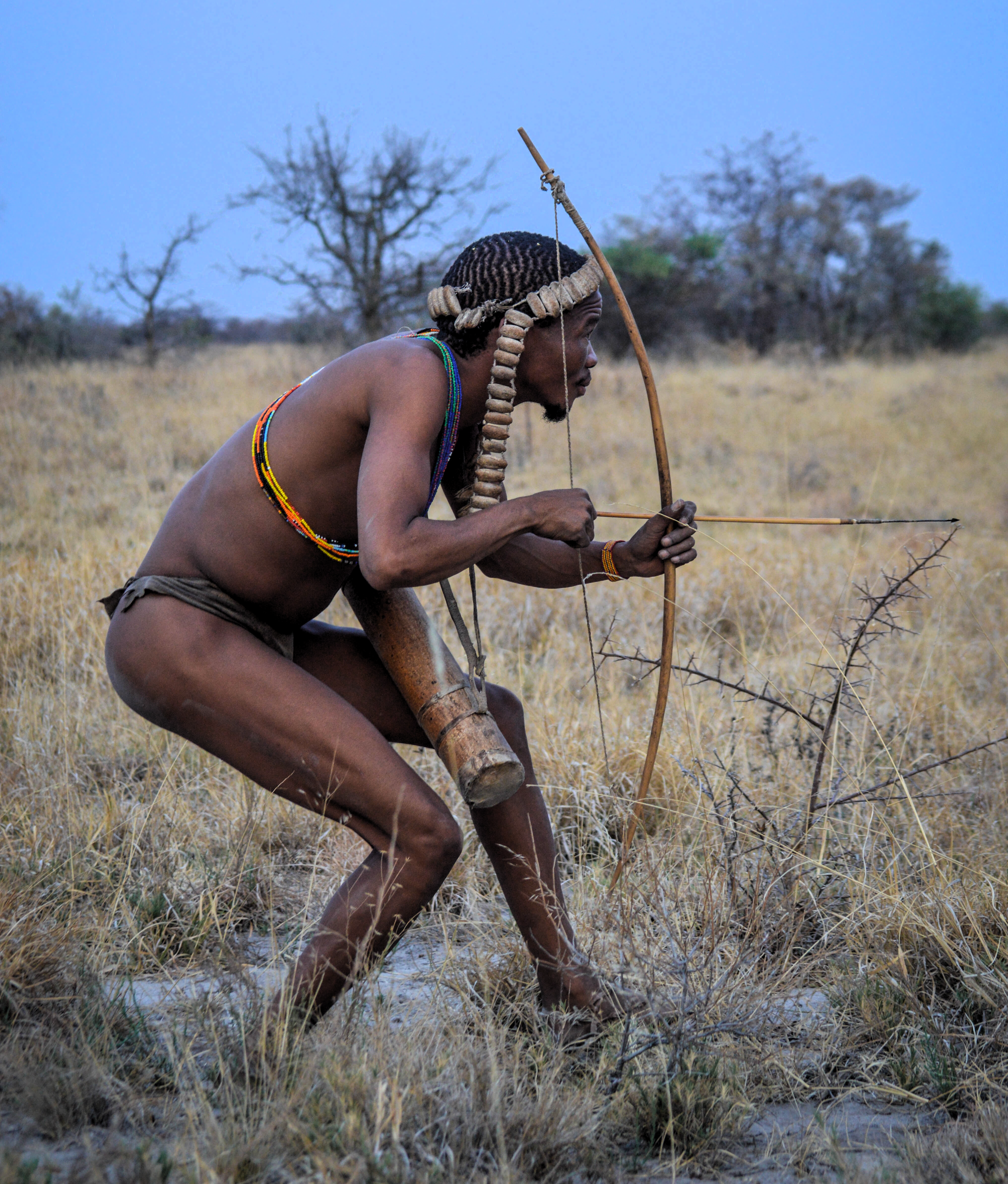 Lifestyle of the Bushmen (Hunting) This is an image of "African people at work" from Botswana